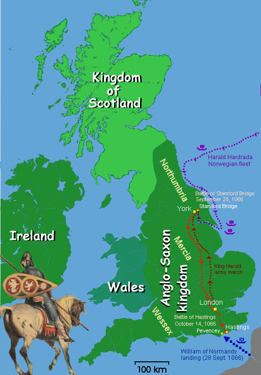 Army movements before Battle of Hastings, 1066 Battle of Hastings was a battle between William the Conquerer and Harold to have England. They both fought becuase of Edward the Confessor who gave William the kingdom when Harold thought he rightfully deserved it. William the Conquerer won and became Prince of Normandy and King of England.